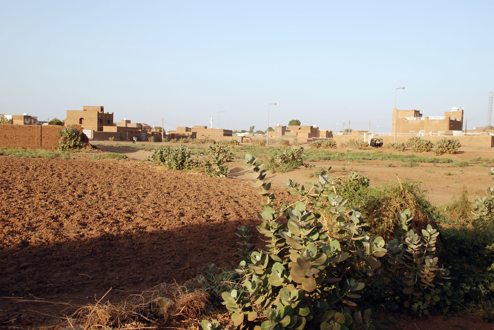 New houses southwest of village center on Tuti Island near Khartoum, Sudan.